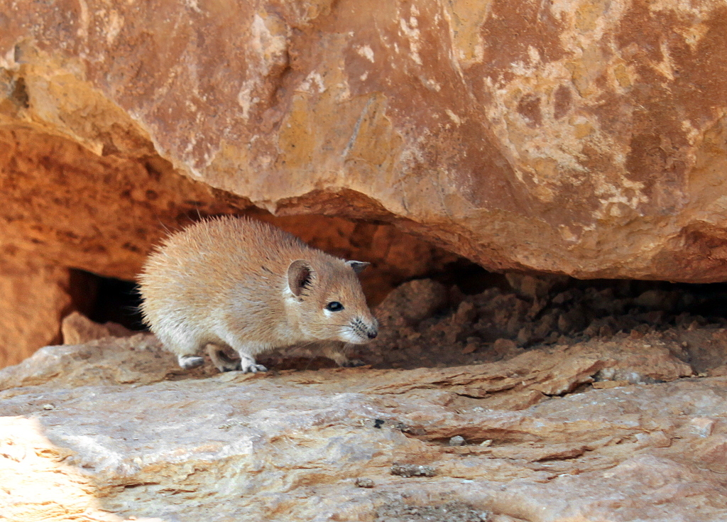 Golden Spiny Mouse at Makhtesh Ramon